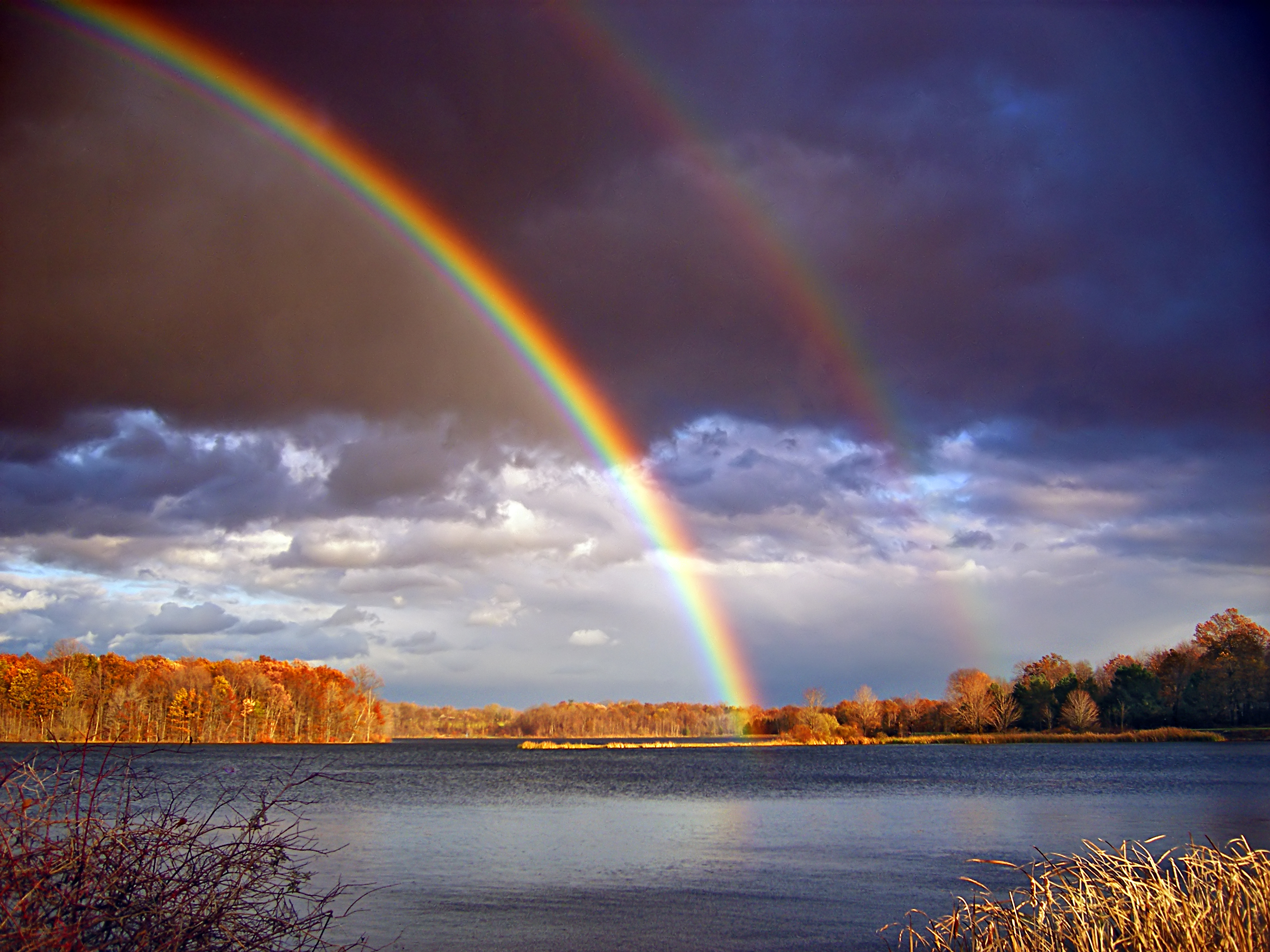 Rainbows and departing storm clouds, Minsi Lake, Northampton County, Pennsylvania, USA.